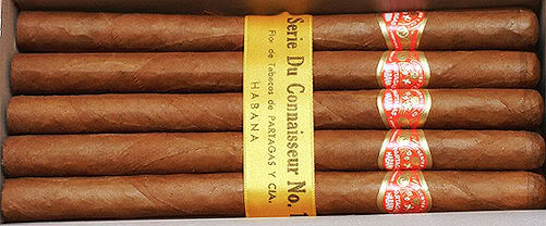 Cabinet of Partagas Serie du Connoisseur No. 1